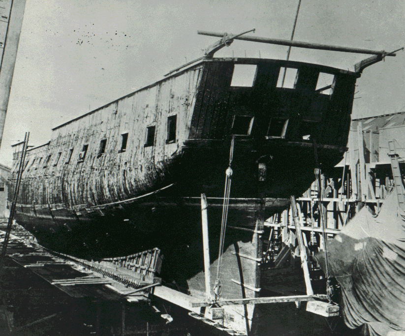 USS Constitution in dry dock at the Philadelphia Navy Yard, 1874.